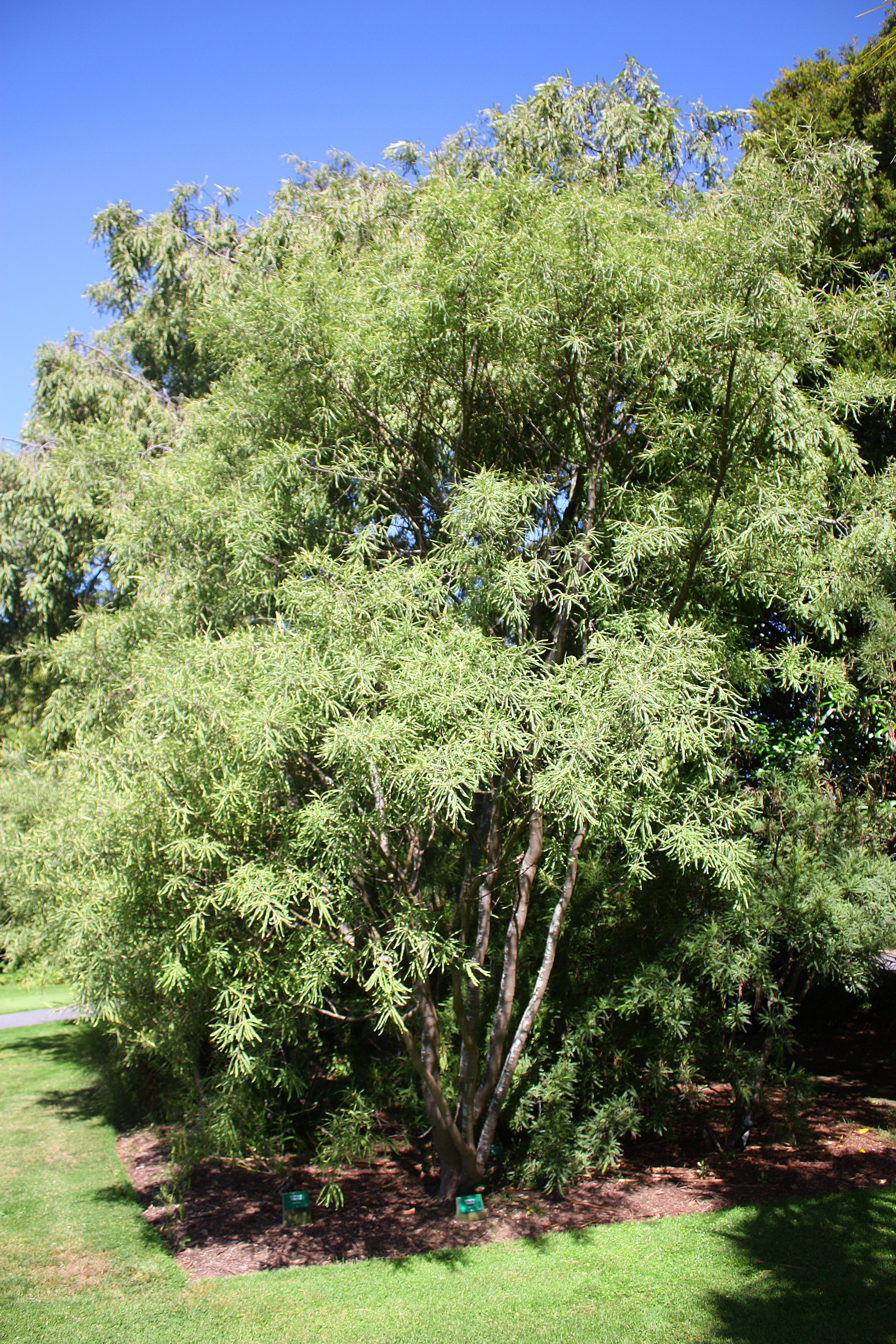 Sophora fulvida (kōwhai) tree from Queens Park, Invercargill. Naturally grows in northern NZ.